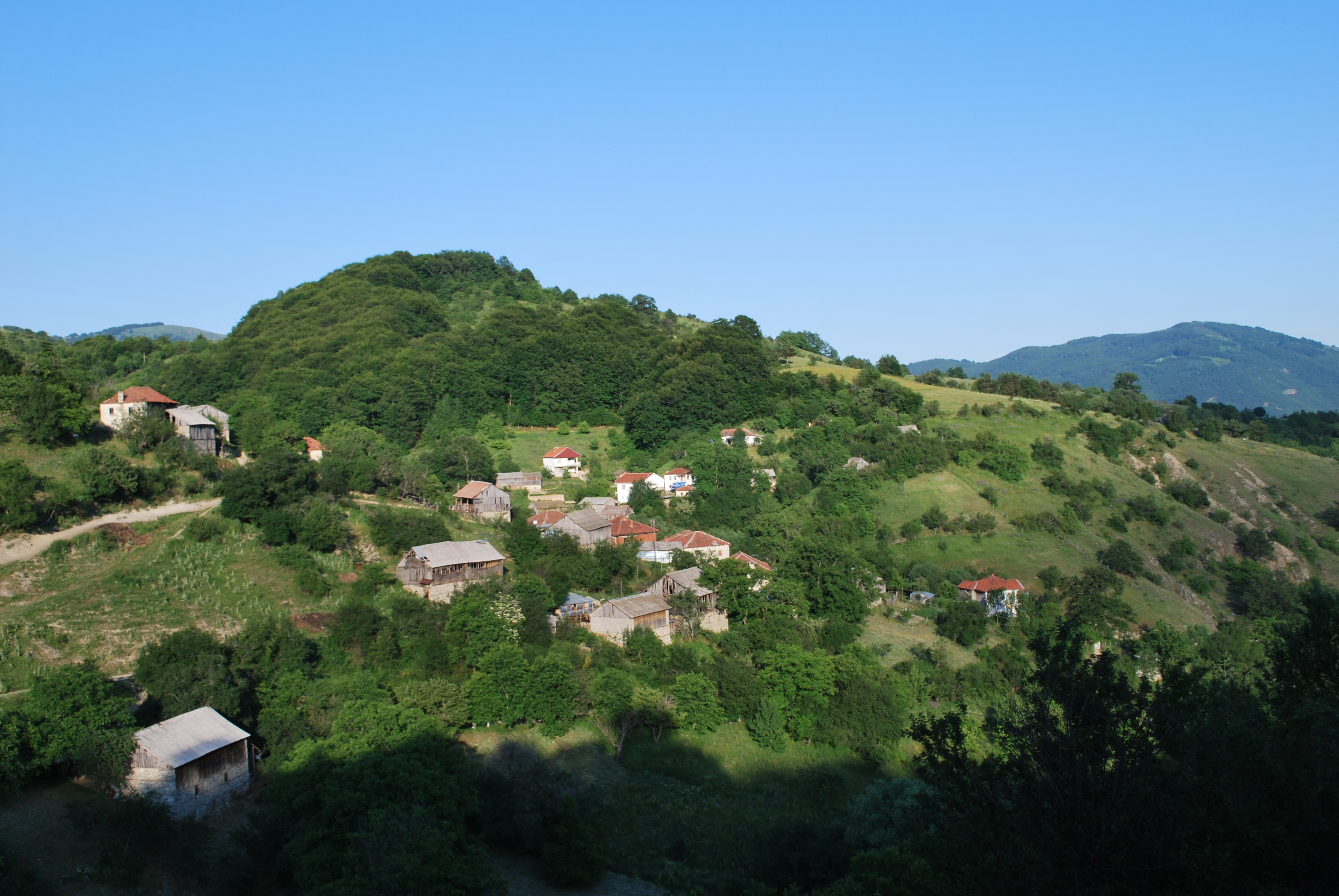 Pusta Reka in Macedonia